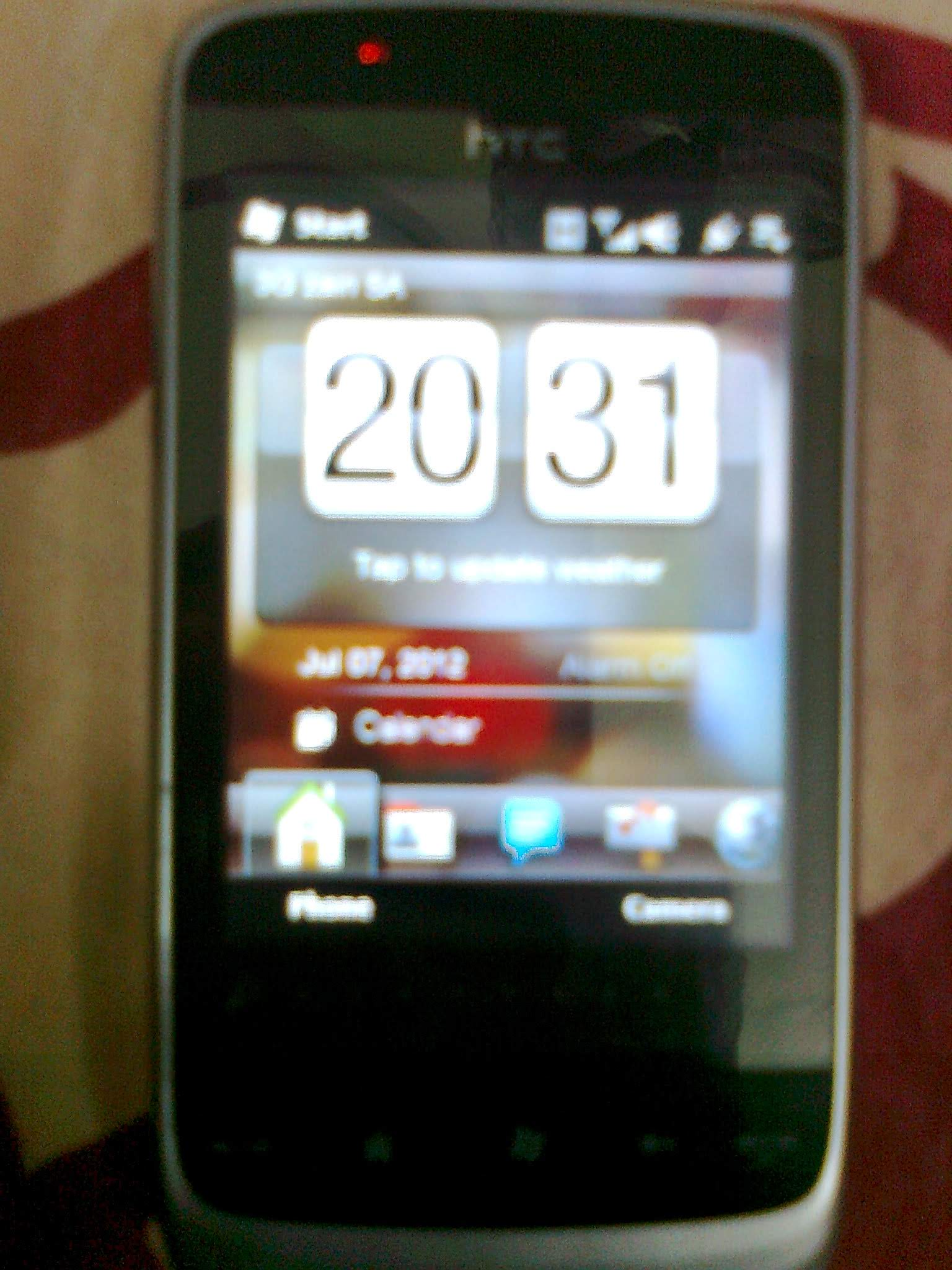 A 2010 edition of the HTC Touch 2 smartphone running Windows Mobile platform